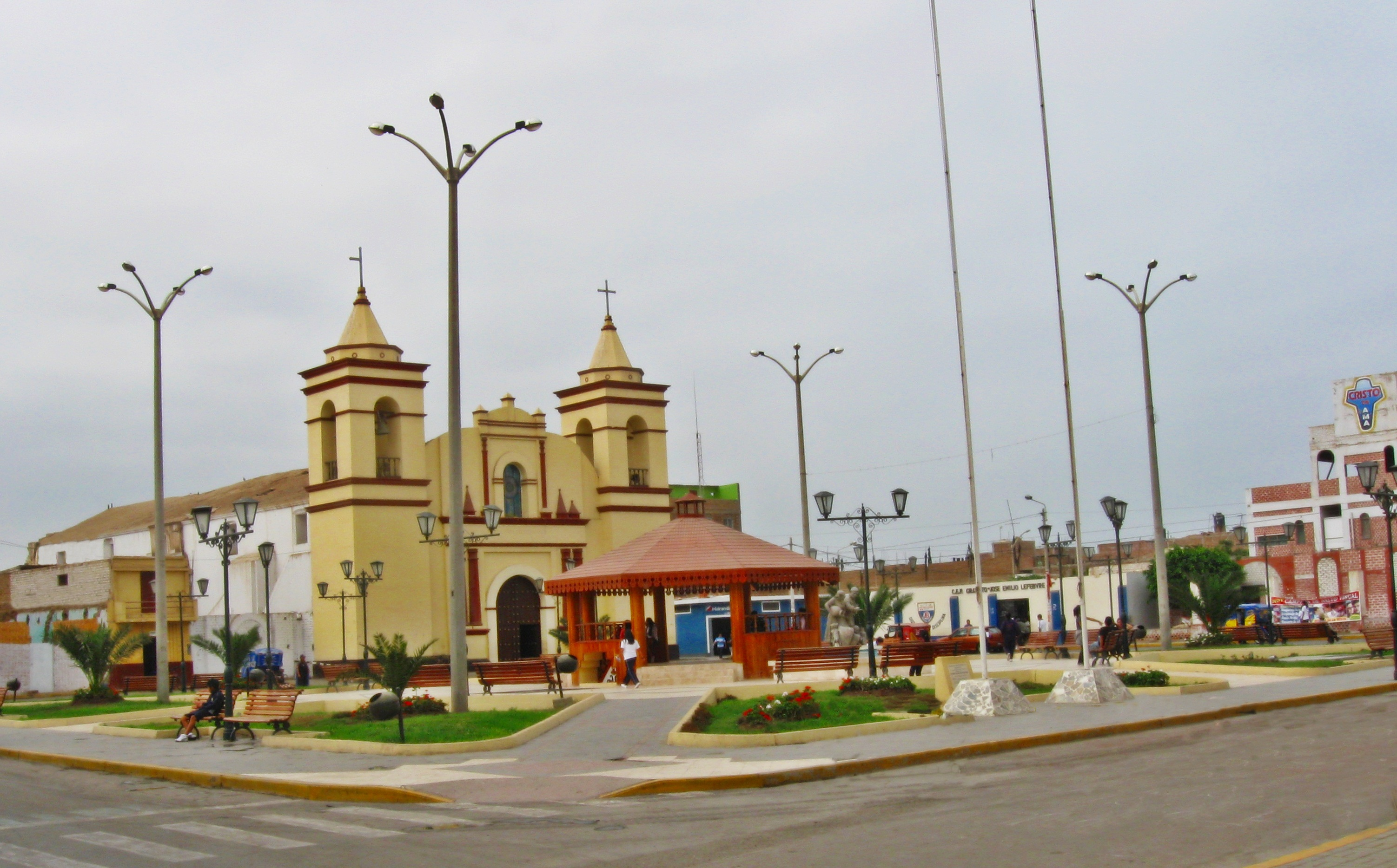 Plaza de Armas de Moche